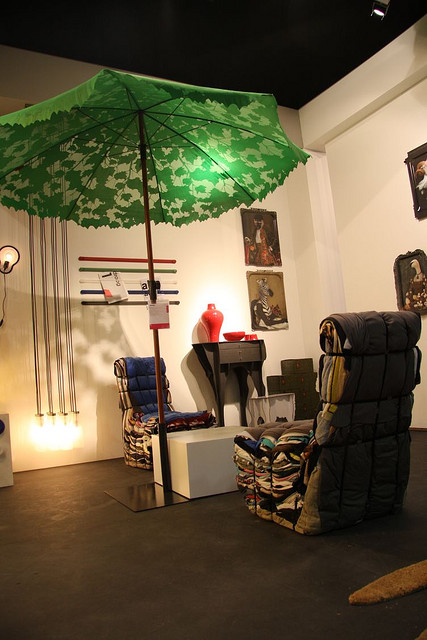 Rag Chair